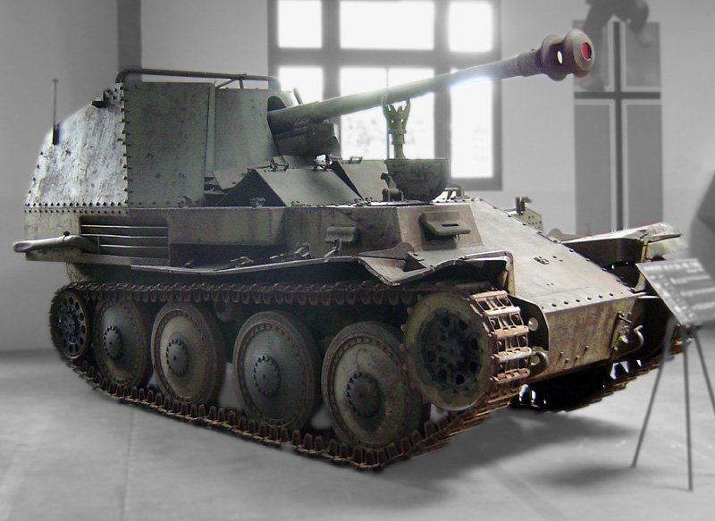 Marder III Ausf. M. on display at the Musée des Blindés at Saumur. The picture taken August 8, 2006.